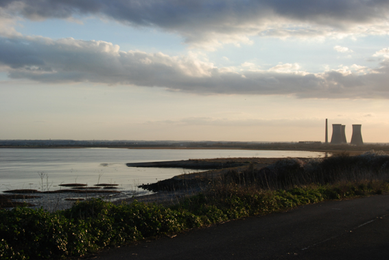 Late afternoon over Pegwell Bay